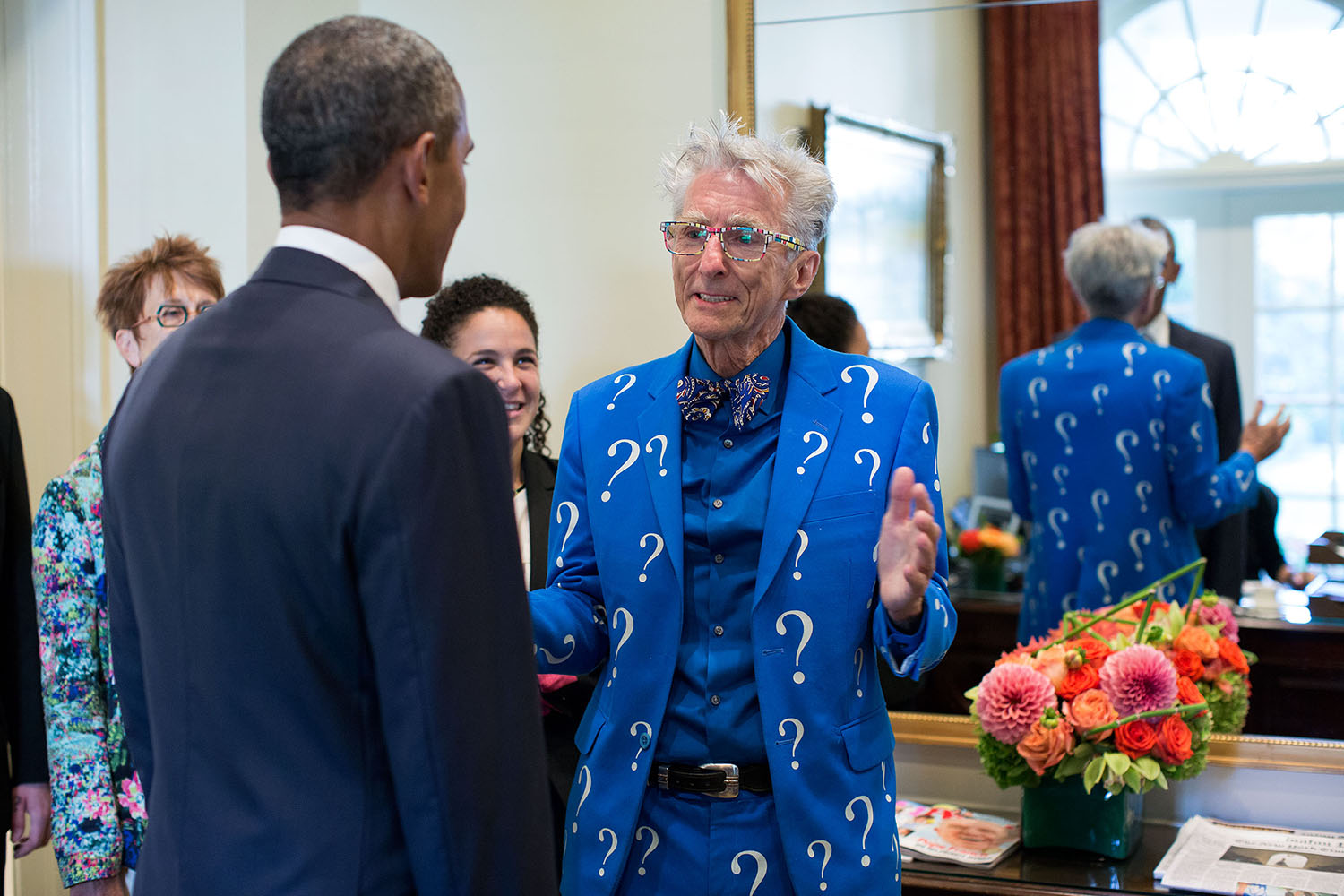 Sept. 18, 2015 "This has to be the suit of the year. Matthew Lesko met the President before having a family photo taken with his son, Max Lesko, who was departing the White House after working in the Counsel Office." (Official White House Photo by Pete Souza)